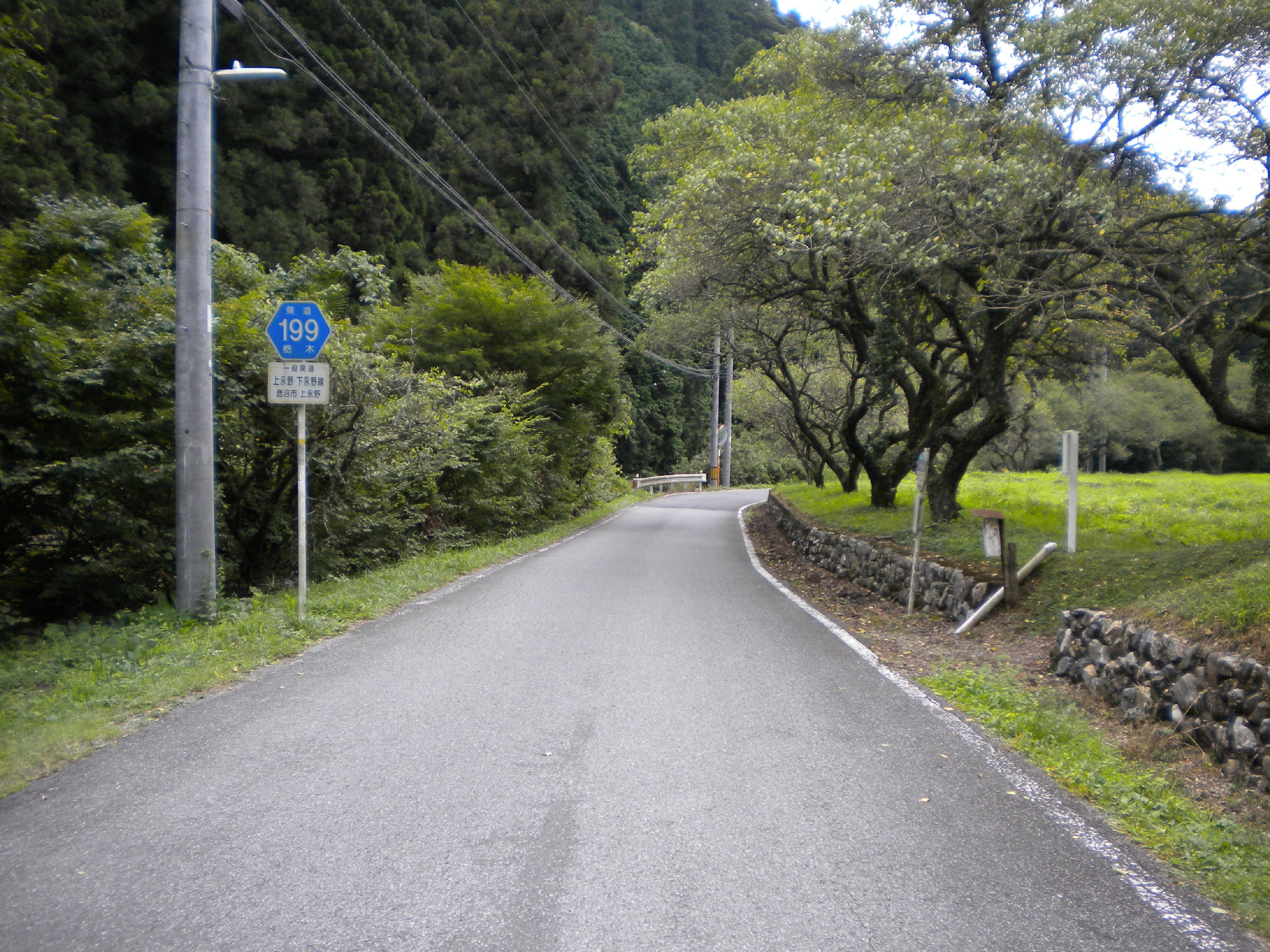 The Tochigi Prefectural Road Route 199 in Kaminagano, Kanuma City